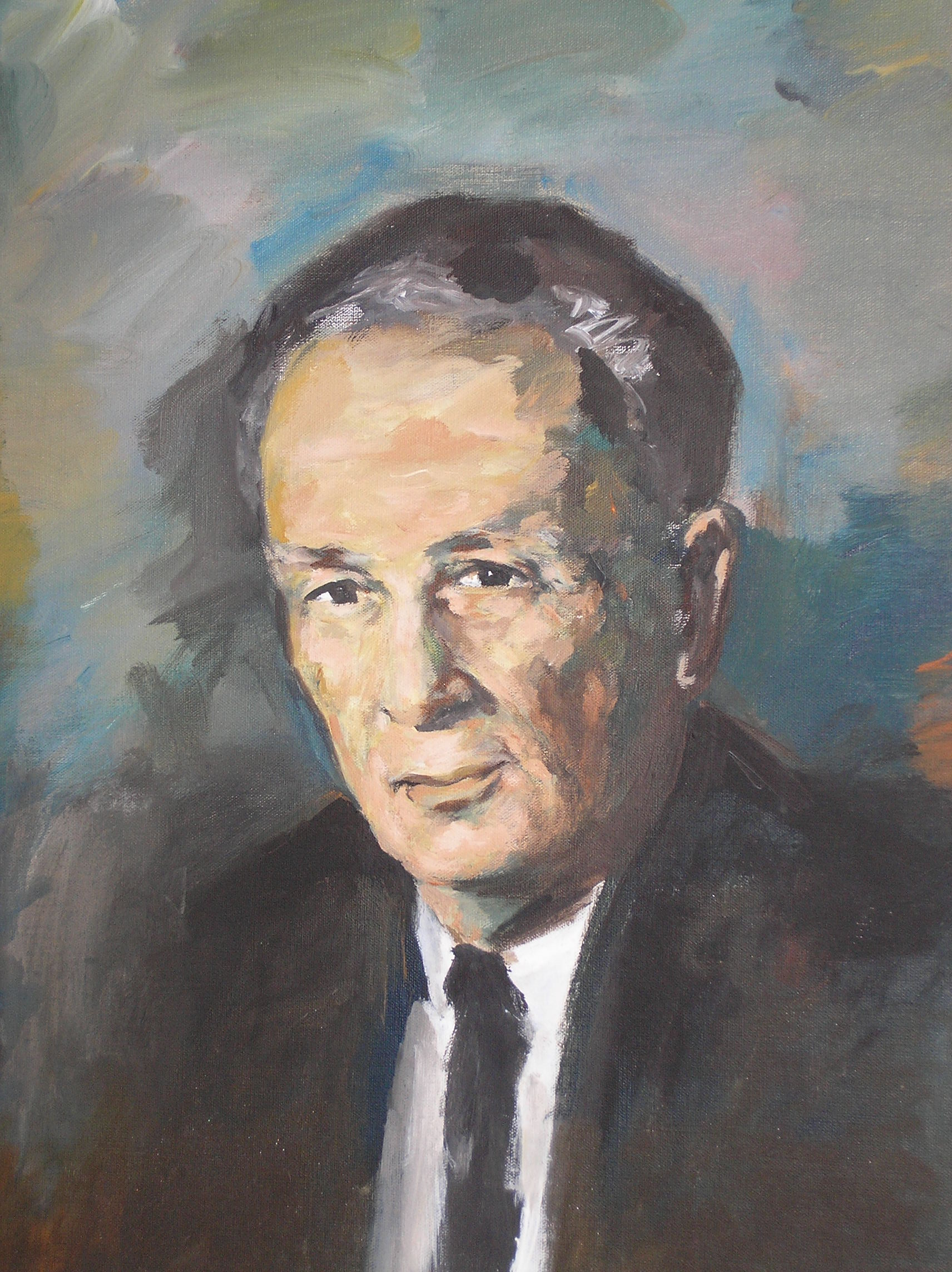 Haifa mayor Abba Hushi (1951-1969)